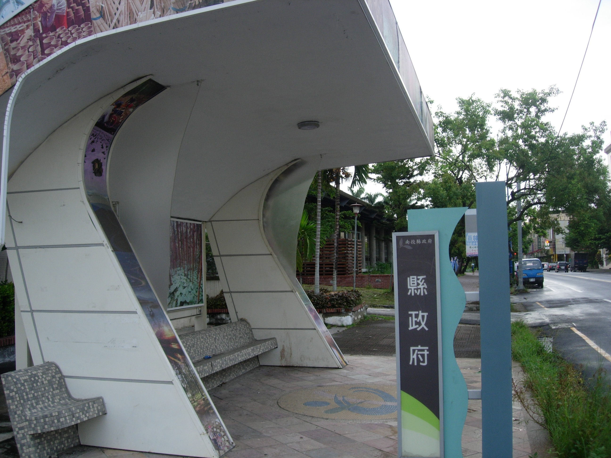 Nantou County Government bus stop.中文（台灣）: 南投縣公車「縣政府」候車亭。